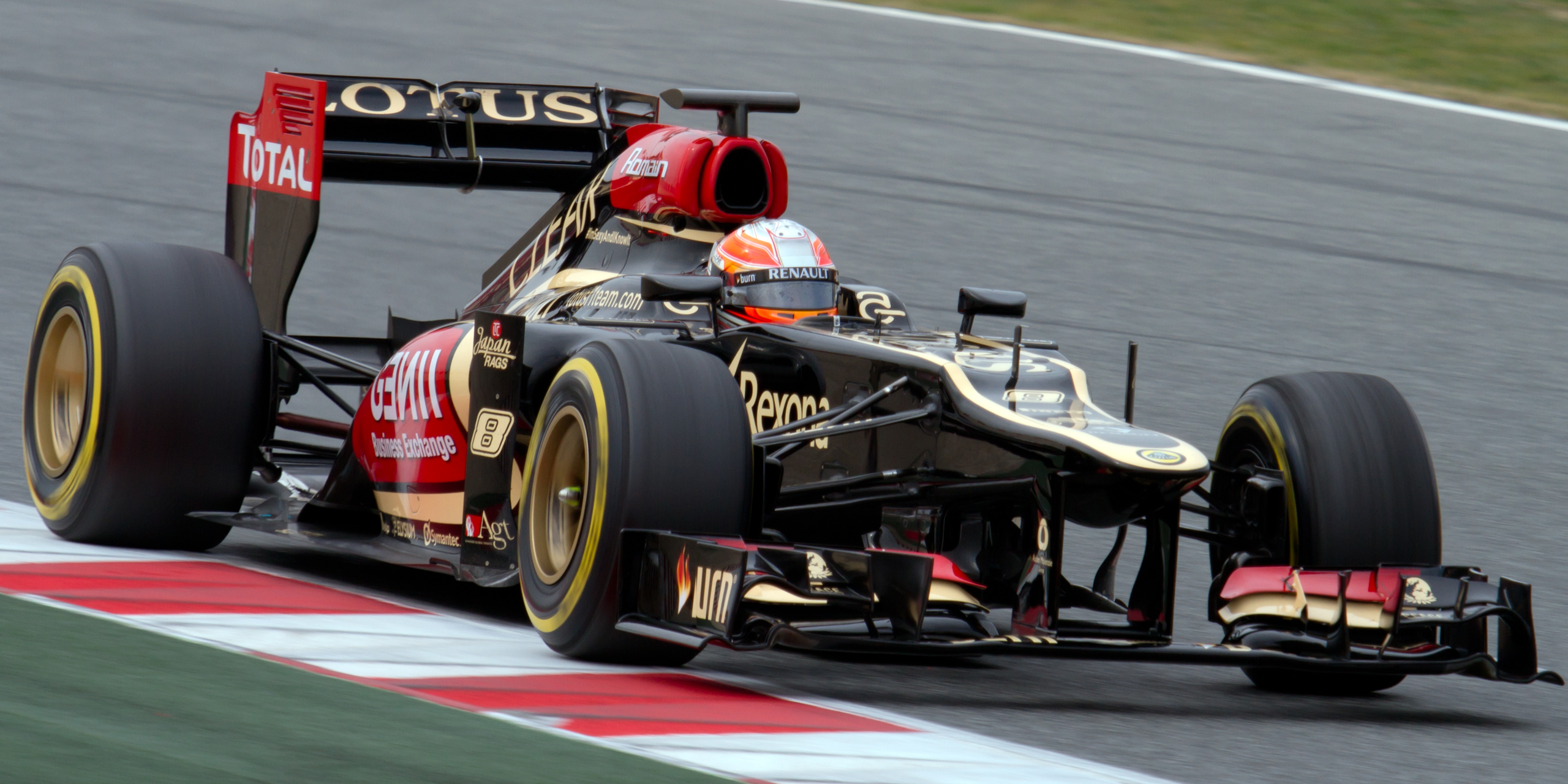 Formula One 2013 Catalonia test (19-22 February): Romain Grosjean (Lotus)